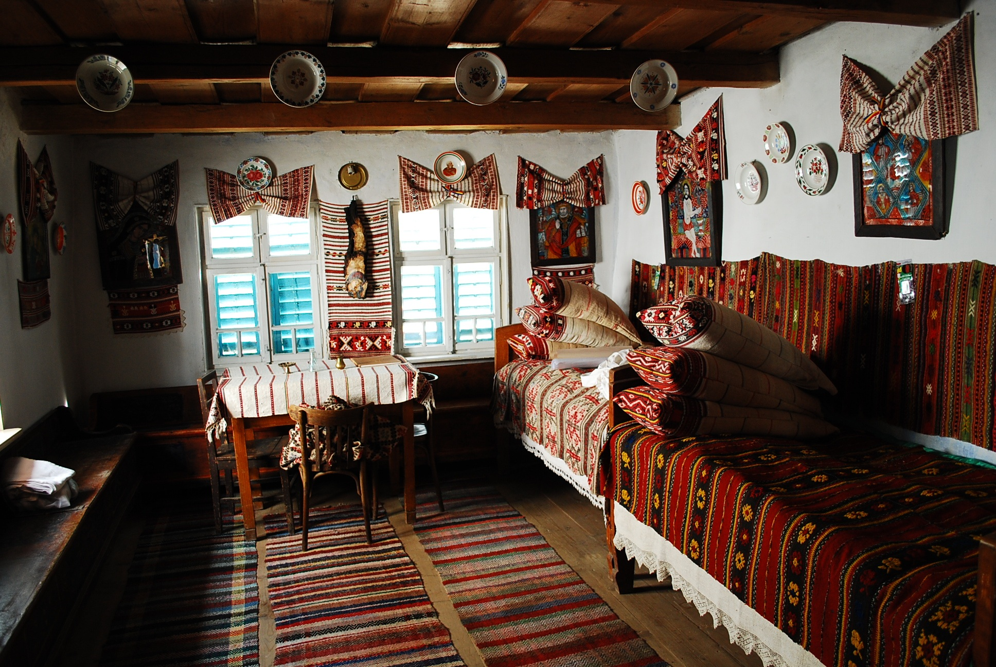 Cuciulata village, Romania